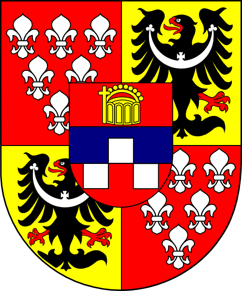 Coat of arms (shield only) of Philipp Ludwig cardinal von Sinzendorf, bishop of Győr, Hungary (1726 - 1732), bishop of Wrocław, Poland (1732 - 1747).